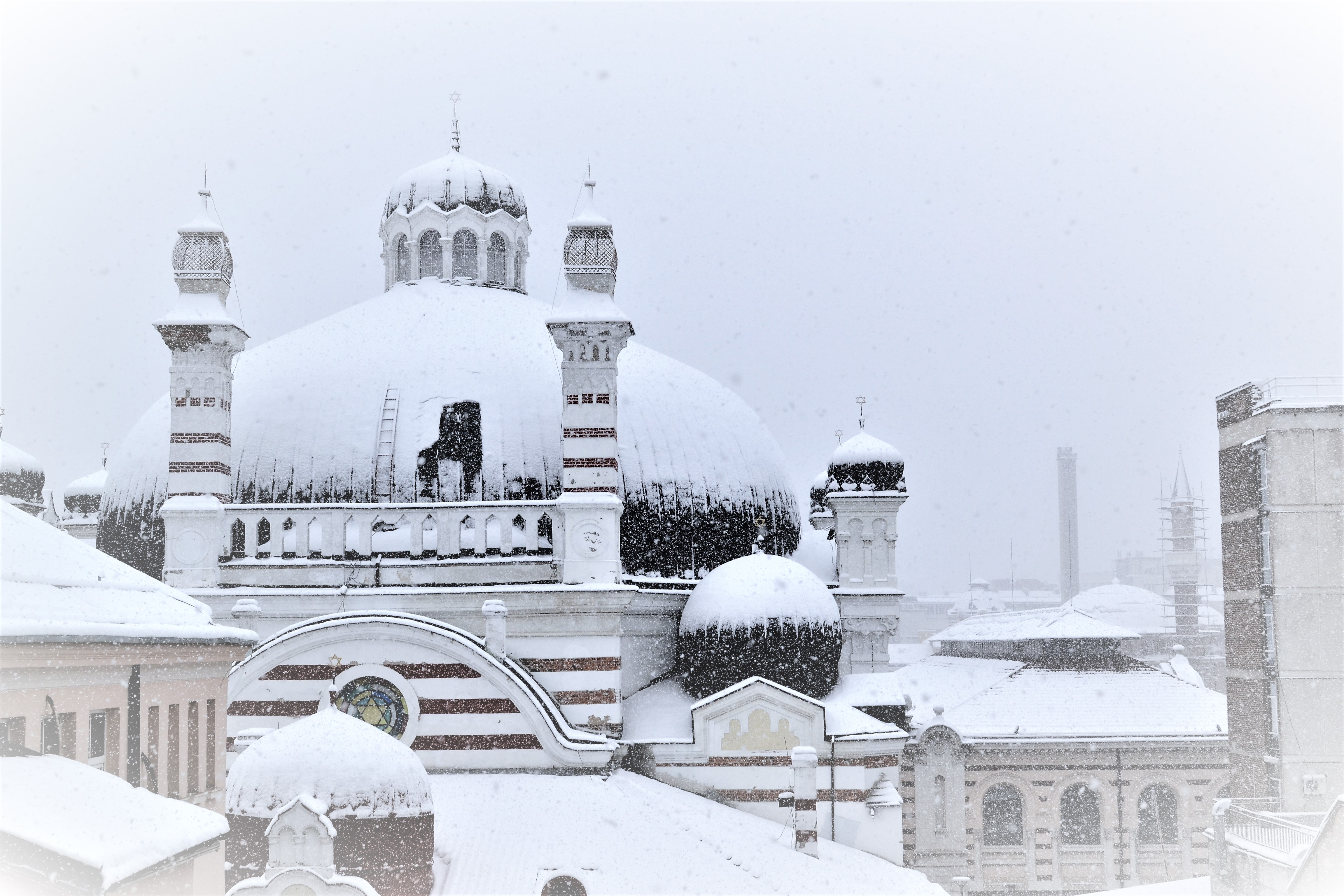 "Wrong will be right, when Aslan comes in sight,At the sound of his roar, sorrows will be no more"C.S.Luis